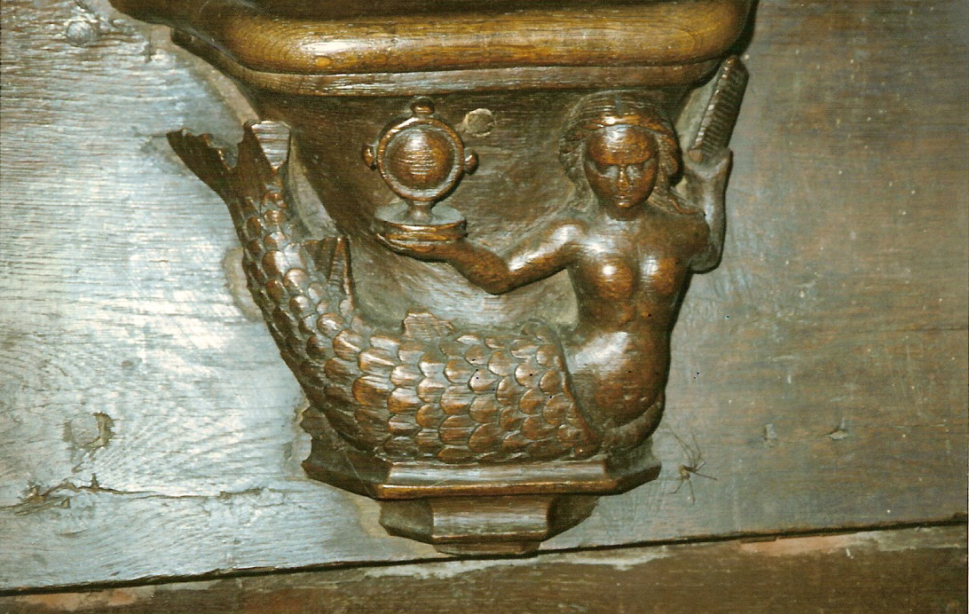 Misericord from Nte Dame church of Les Andelys (Eure) FRANCE